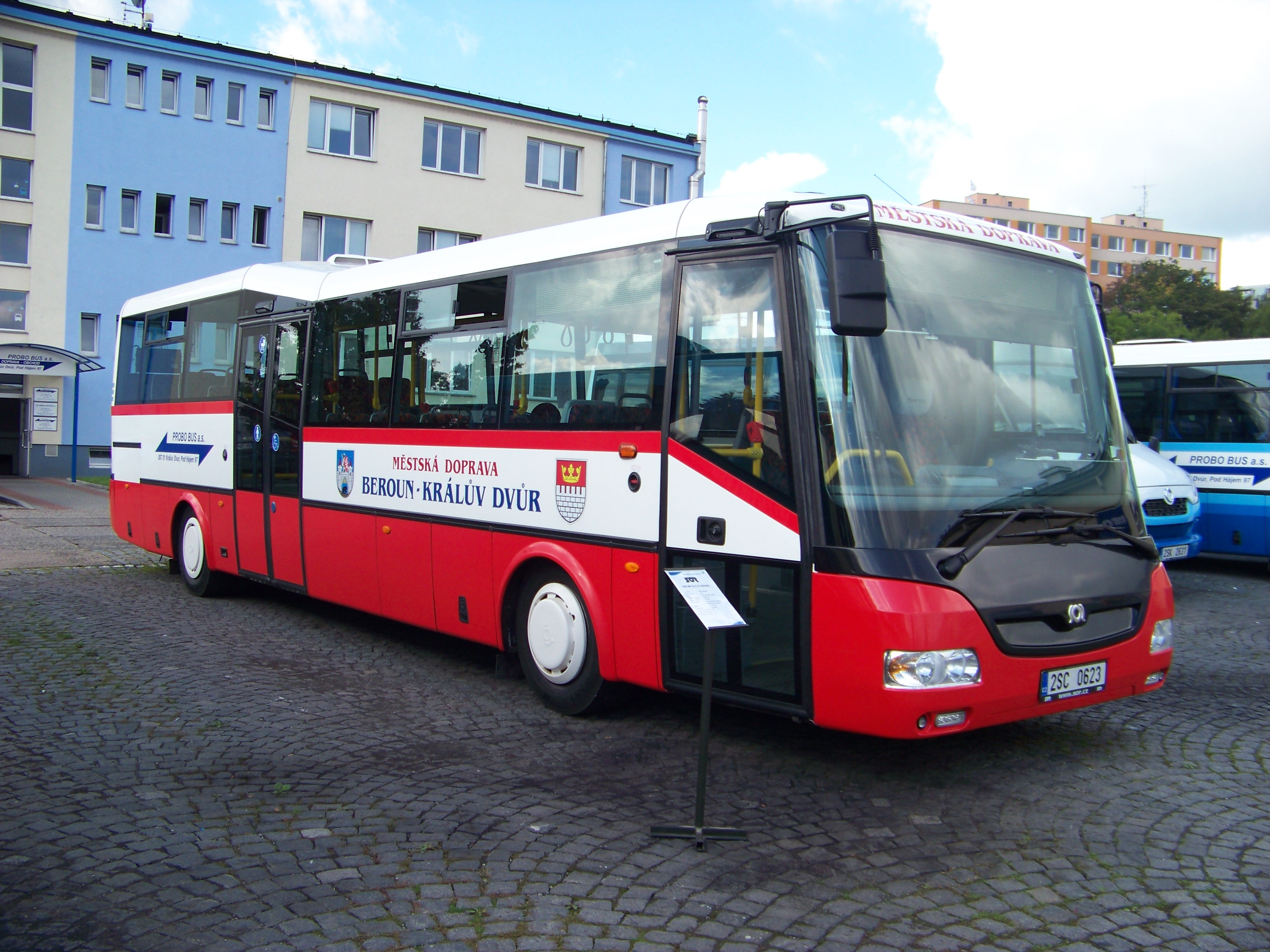 Králův Dvůr, Beroun District, Central Bohemian Region, Czech Republic. Pod Hájem 97, PROBO BUS ground. Open doors day.